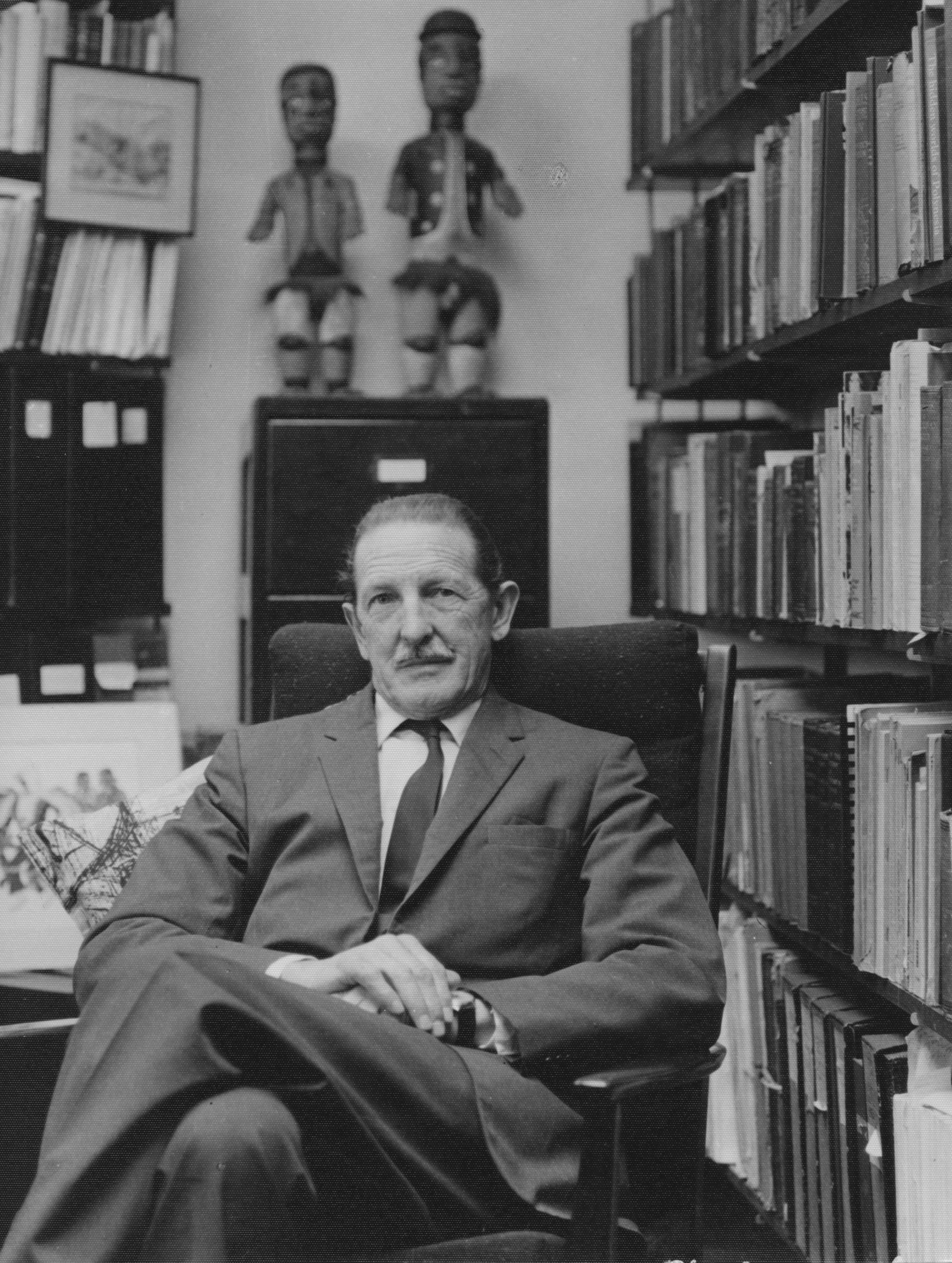 Department of Anthropology 1932-1968 Raymond Firth cane to LSE as a graduate student in 1924 (PhD 1927) from New Zealand. After fieldwork in Australia and a lectureship at the University of Sydney, he was appointed to a lectureship in Anthropology at LSE in 1932-3, made reader in 1935 and was appointed to the chair made vacant by the death of Malinowski, in 1944. He retired in 1968. IMAGELIBRARY/573 Persistent URL